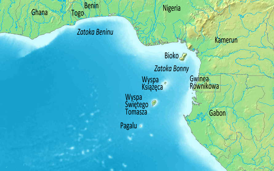 Map of Gulf of Guinea in Polish